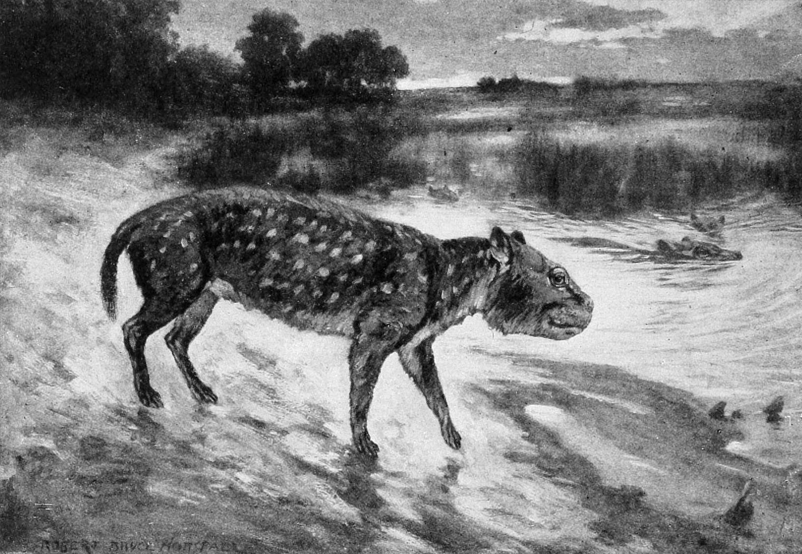 Sespia (formerly Leptauchenia) nitida.